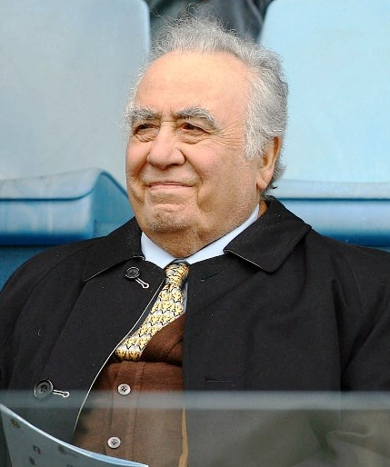 Franco Sensi, Italian entrepreneur, politician, sport's activist. Former President of Italian football club AS Roma.